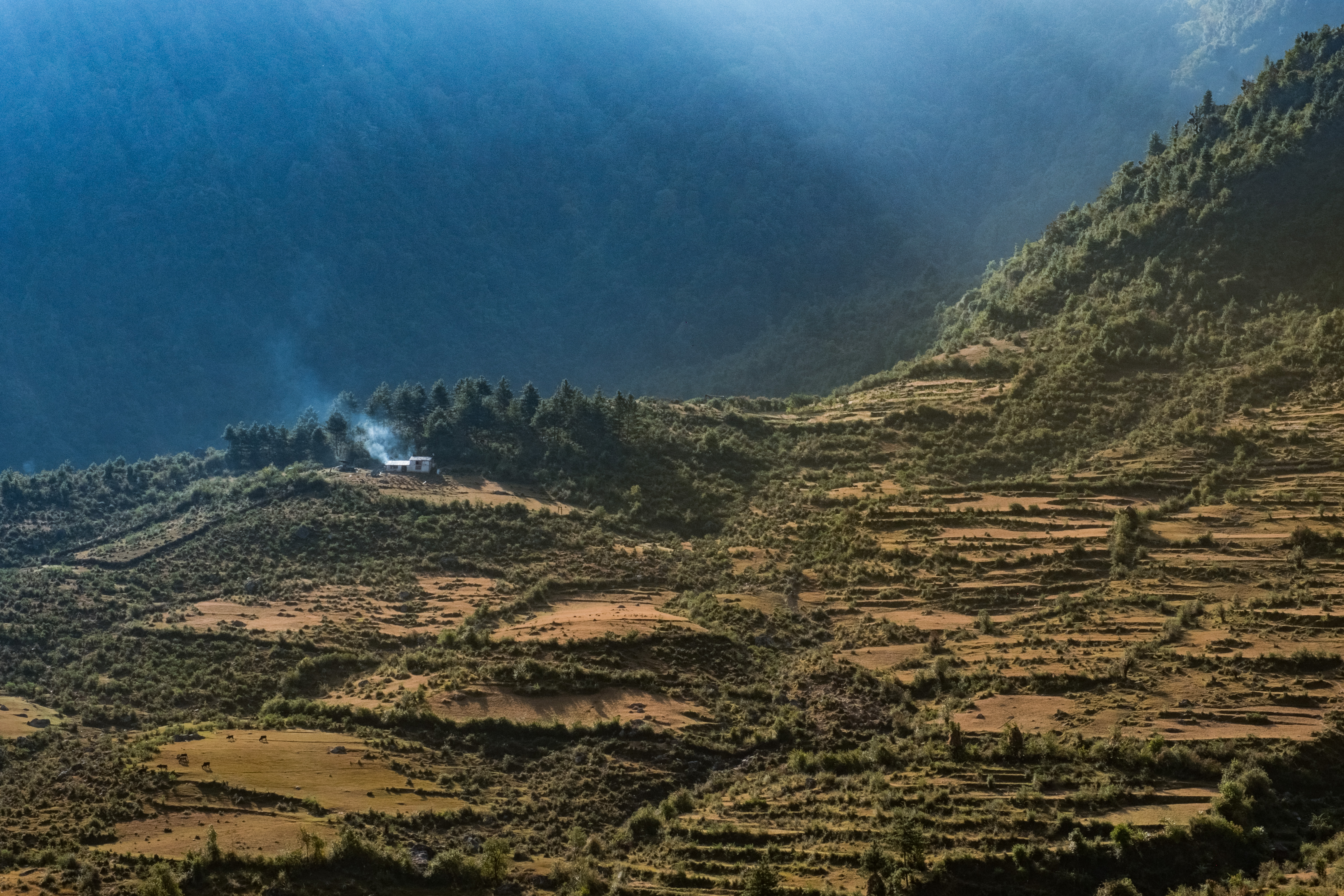 October 2017. The Malika Handmade Paper Pvt. Ltd. (MHPL) building (smoke rising) with the forested hillsides of a nearby Community Forest area in the background. Lokta bark used in the paper making comes from these and surrounding forests. Kailas is a village of 300+ households and over 3000 people situated several thousand meters up in the mountains from the city of Chainpur. Access is only by a steep trail traversing the hillsides. Kailas, Bajhang District, Nepal. Photograph by Jason Houston for USAID